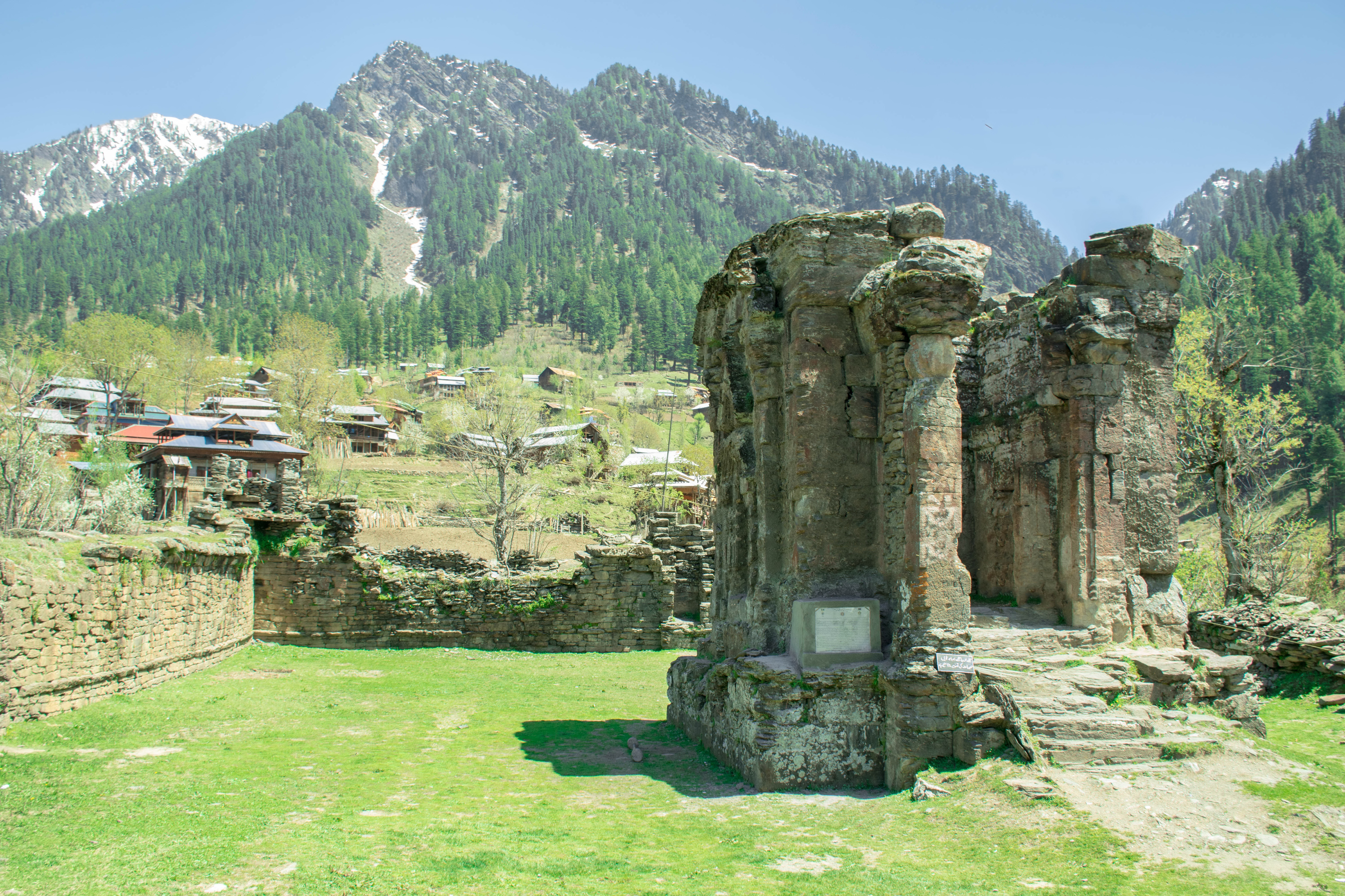 Sharda Fort, Azad Jammu & Kashmir, Pakistan